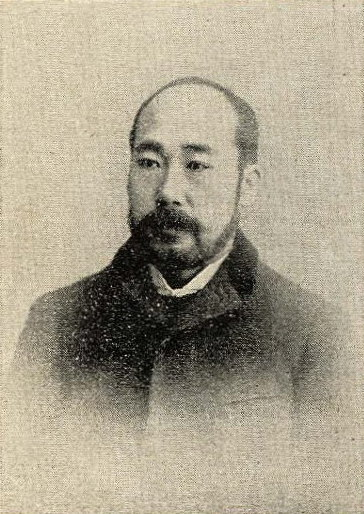 Sassa Tomofusa(佐々友房) was a educator, journalist and politician in Meiji era .